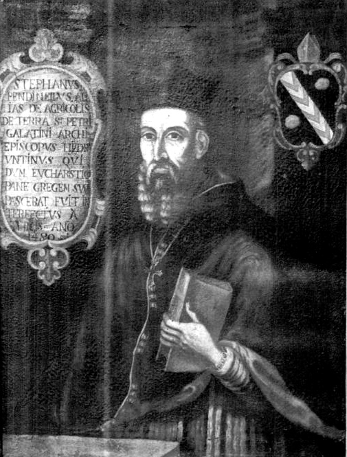 Portrait of the martyred bishop of Otranto, Stephanus de Pendinellis (died 1480). Portrait located in the Chiesa dell'Assunta della Chiesa Matrice, Galatina.